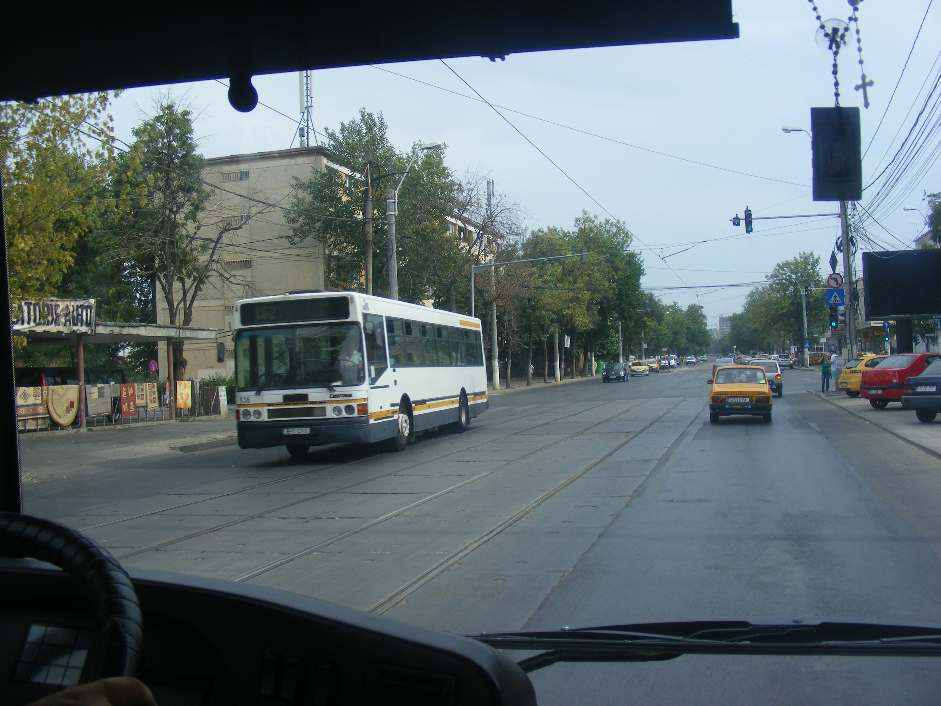 An overview of Giulesti Ave. with DAF SB220 bus number 836 on line 162. Compared to 734, this one was bodied by Castrosua (Spain)